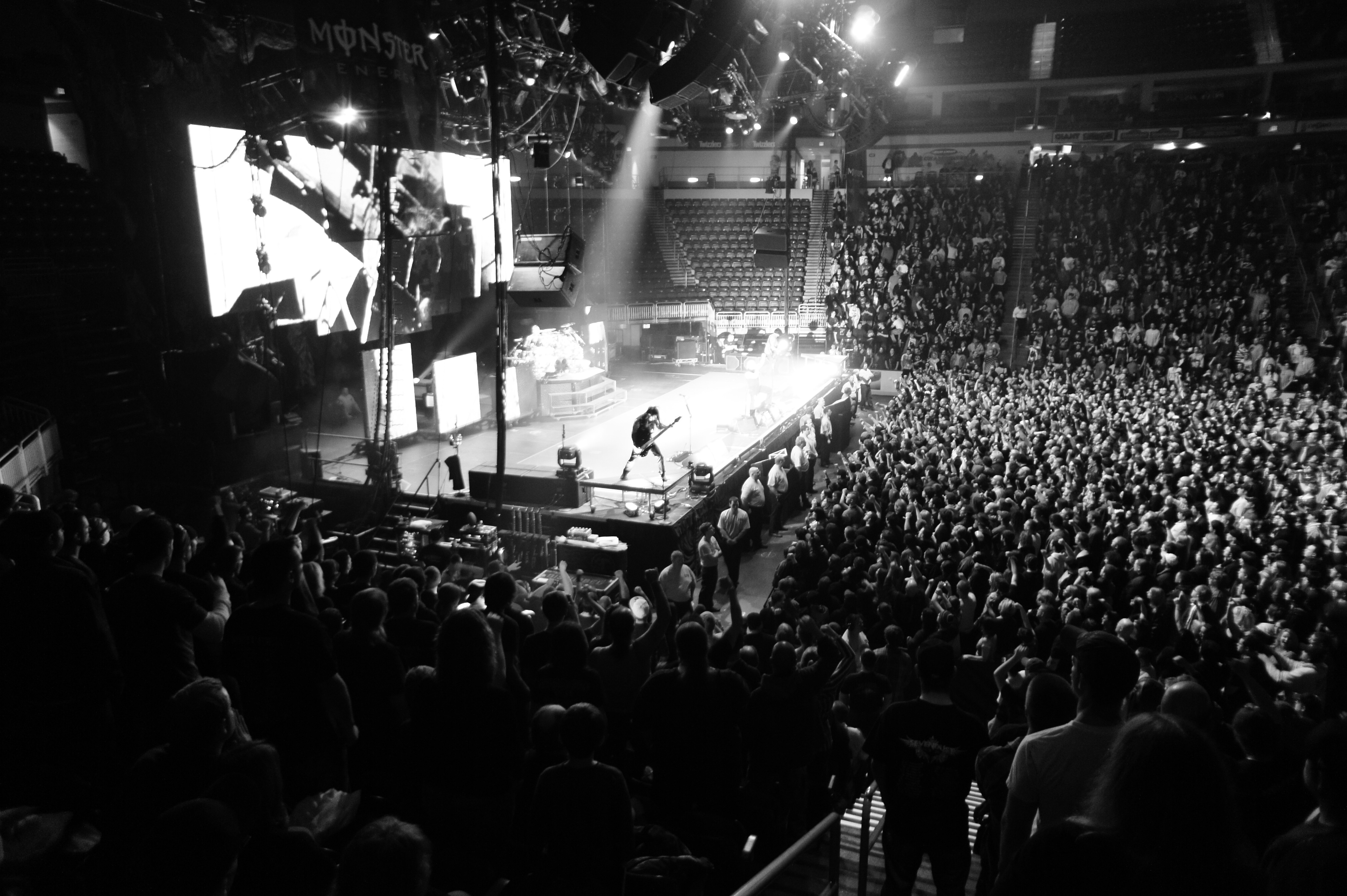 Disturbed live in Hershey, PA